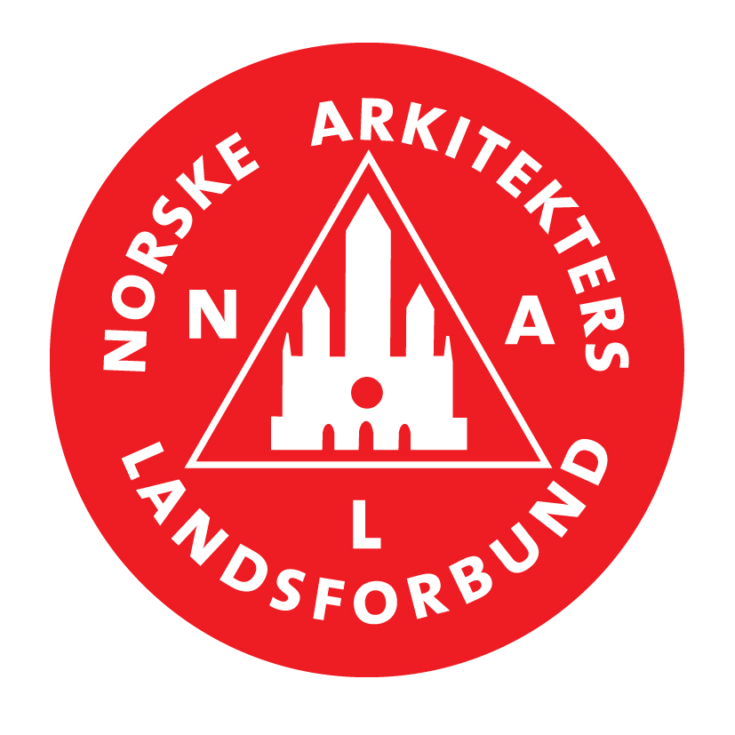 The current logo of Norske arkitekters landsforbund; NAL (The National Association of Norwegian Architects). The logo is adapted from the original, which was the winning project of a logo competition in 1926. The winning project was designed by the architect P.D. Hofflund.